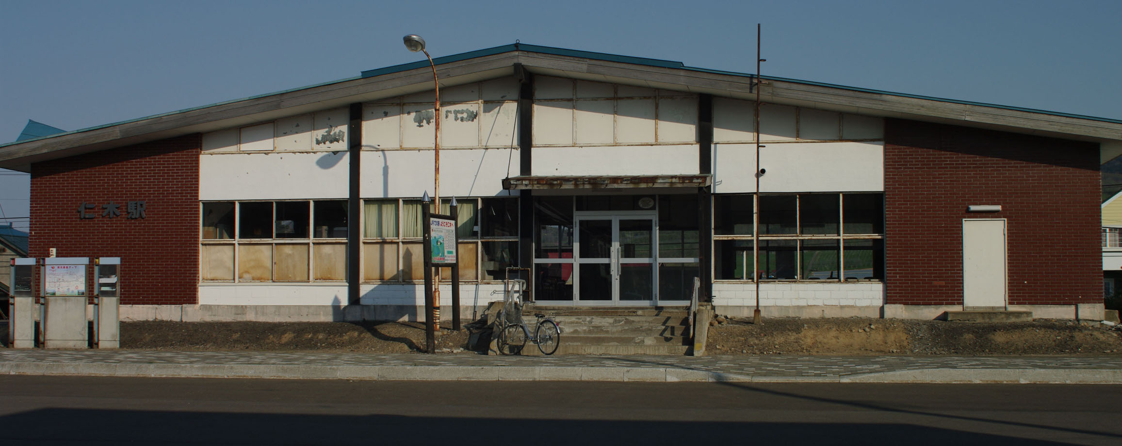 Niki station, Niki, Hokkaido, Japan